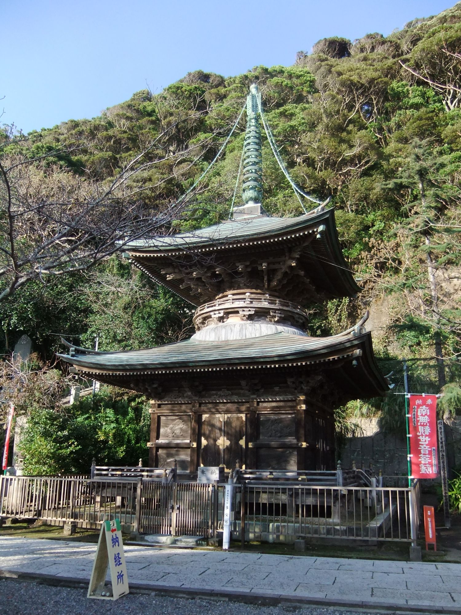 Tahōtō pagoda at Nago-ji temple in Tateyama, Chiba